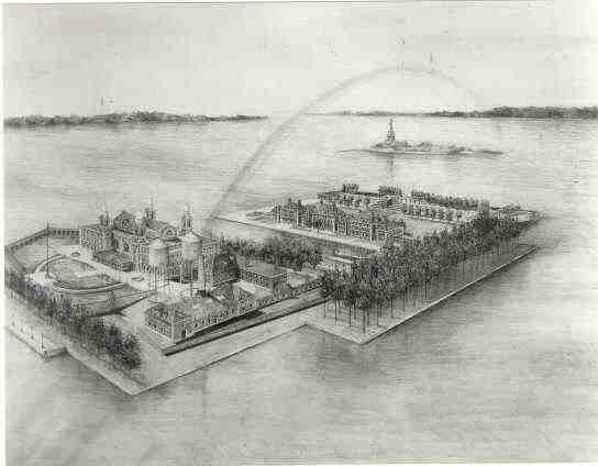 Drawing by Susana Torre submitted as proposal for Ellis Island Park development, 1981.